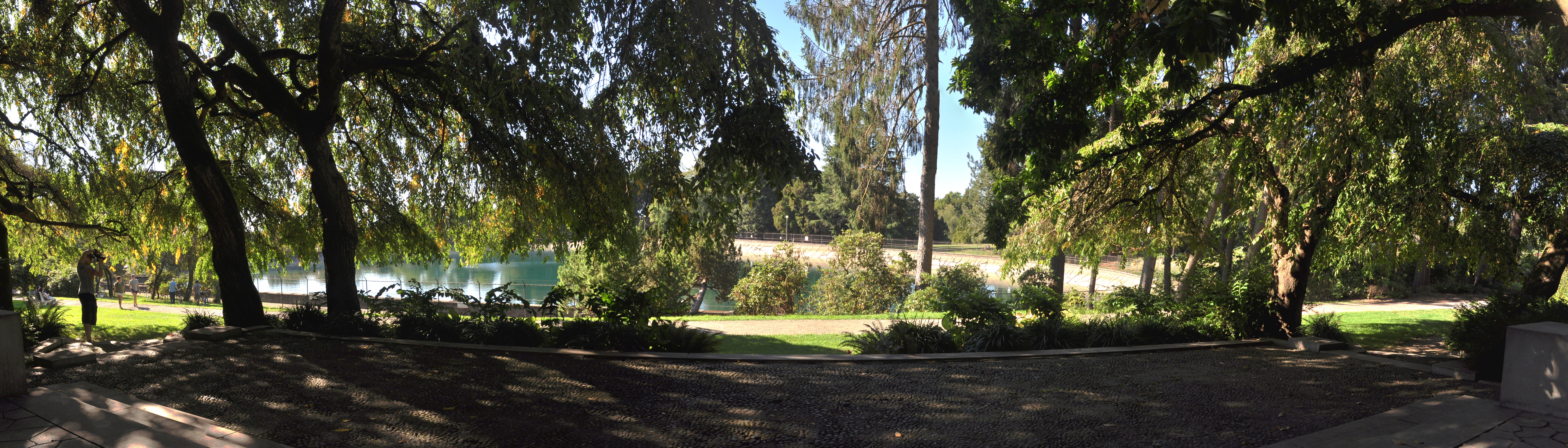 Panoramic view of Volunteer Park Reservoir, Seattle, Washington. This image was created with Hugin.